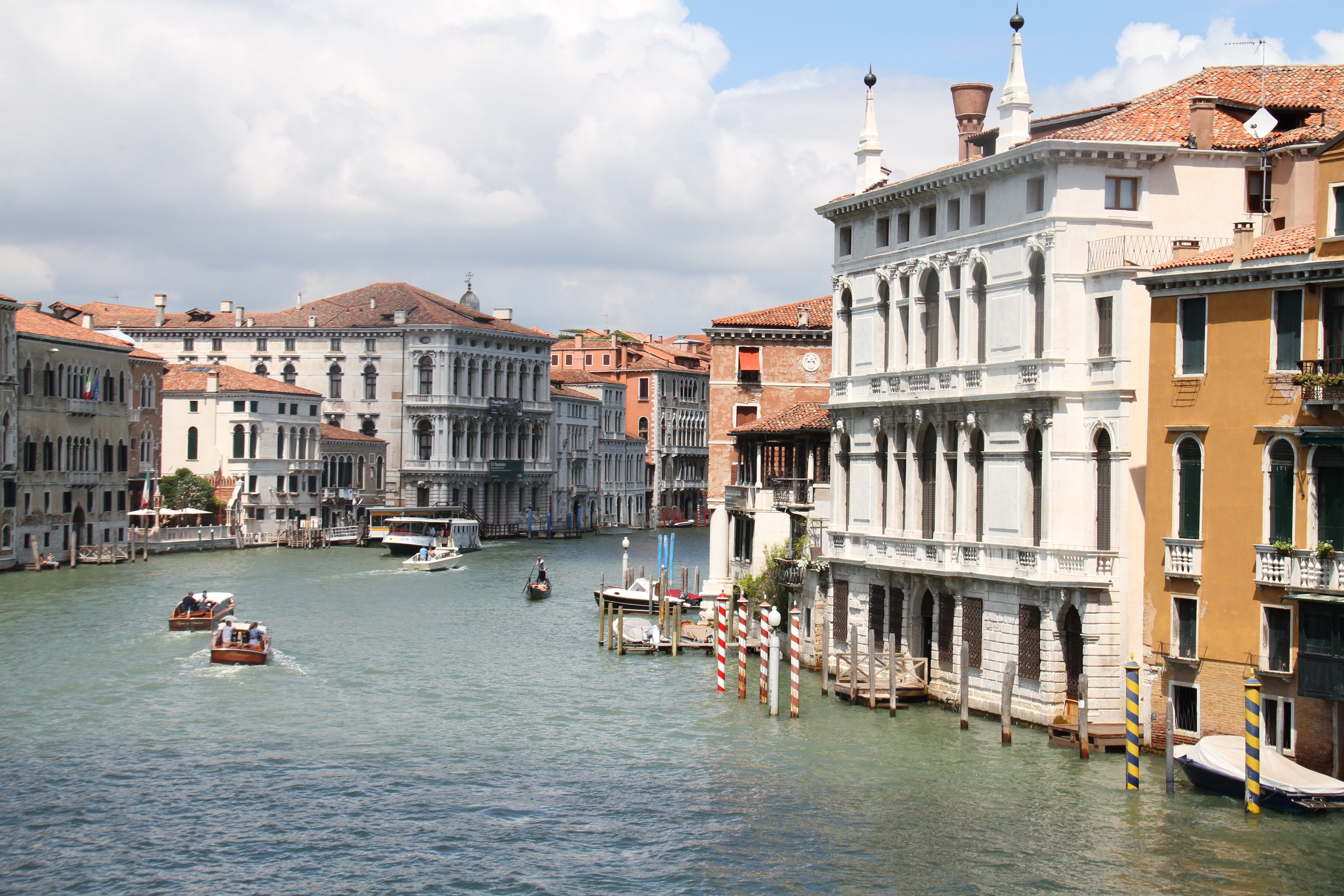 Canal Grande, Venezia